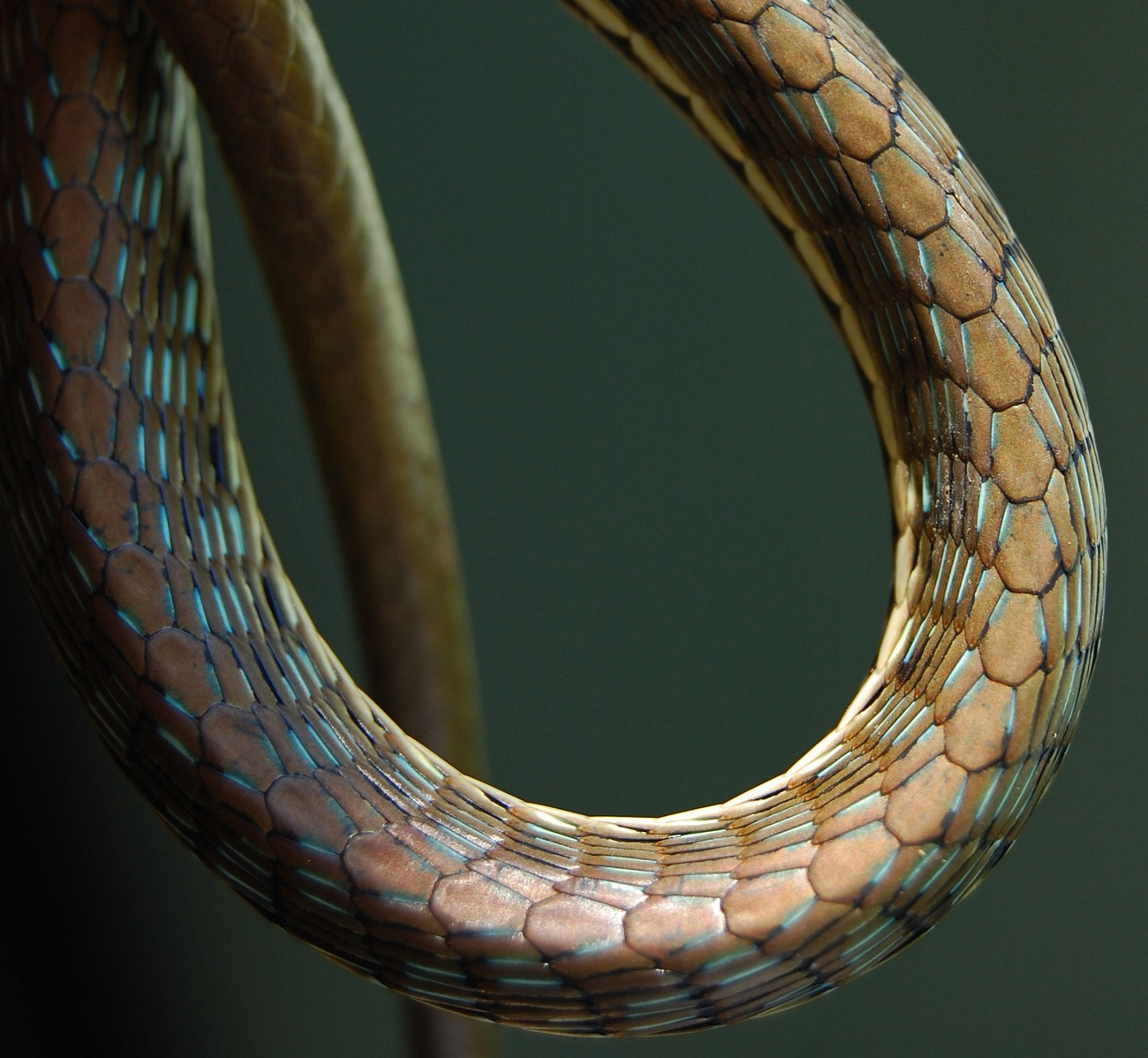 Dendrelaphis pictus, from Bogor, West Java, Indonesia